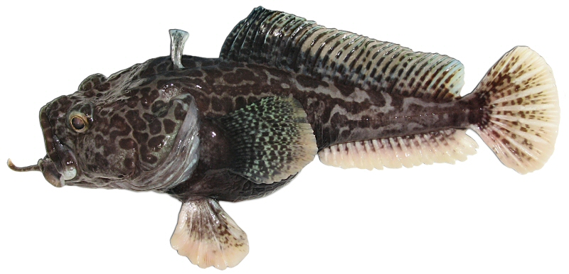 Turquoise plunderfish Pogonophryne tronio Shandikov, Eakin et Usachev, 2013